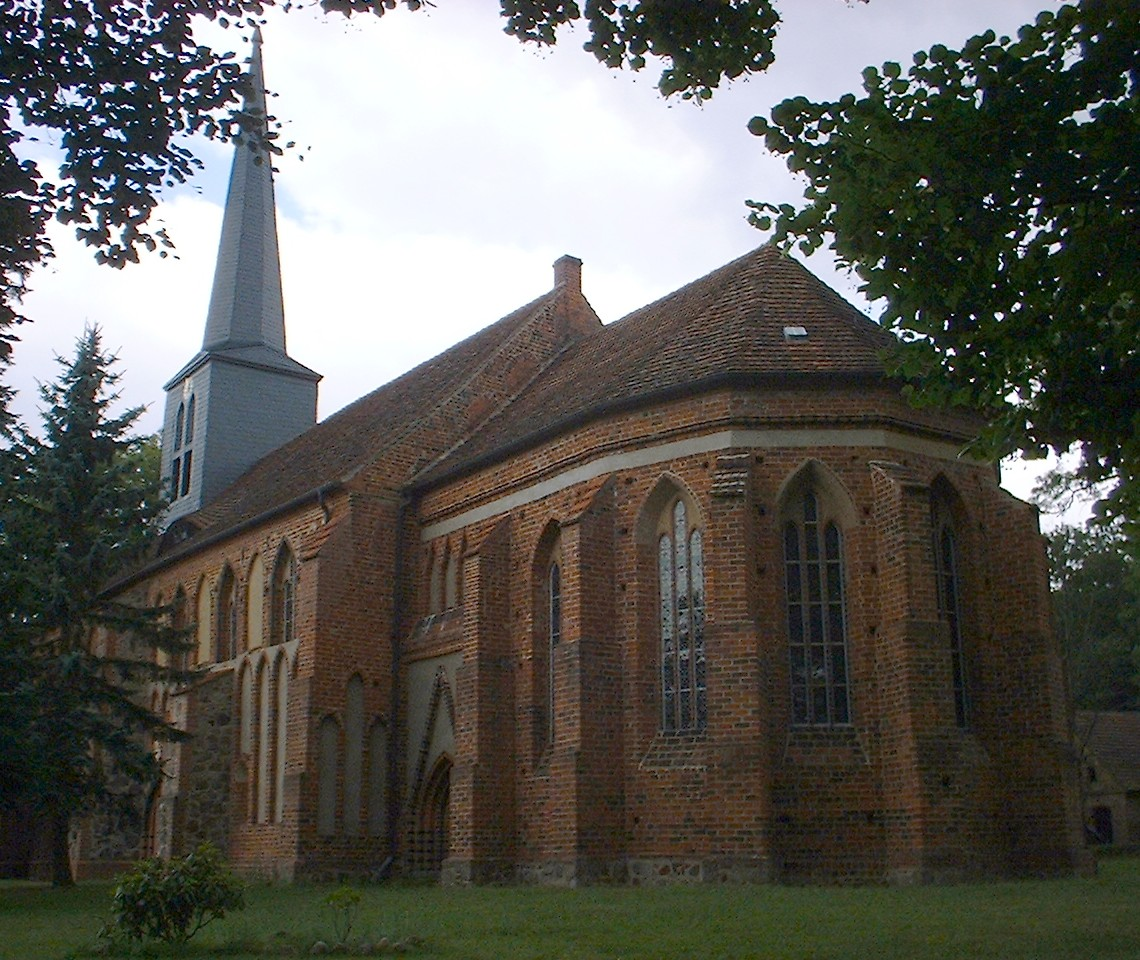 Cloister Church in Stepenitz (a locality of Marienfließ) in Brandenburg, Germany